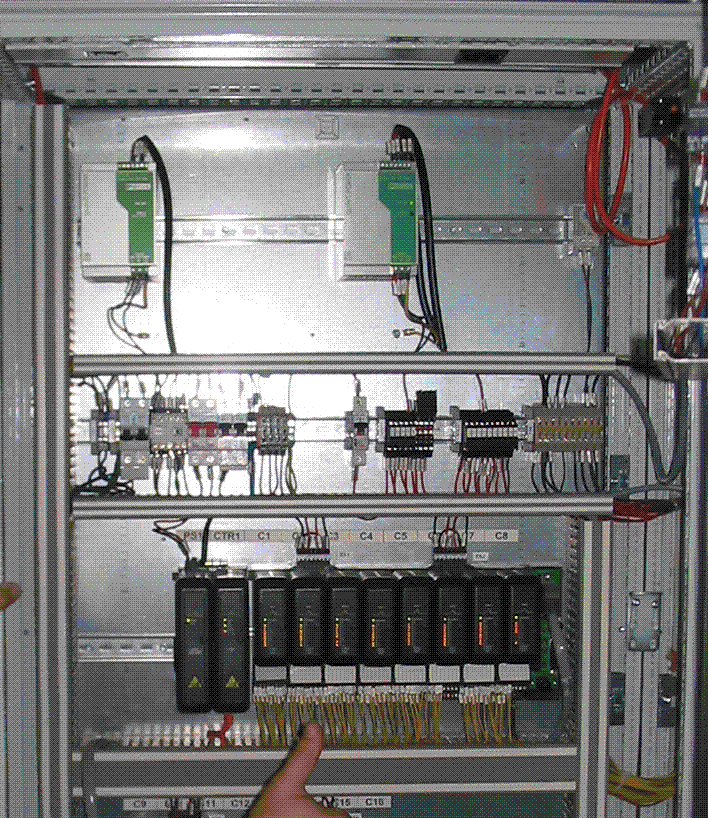 Distributed Control System - DeltaV